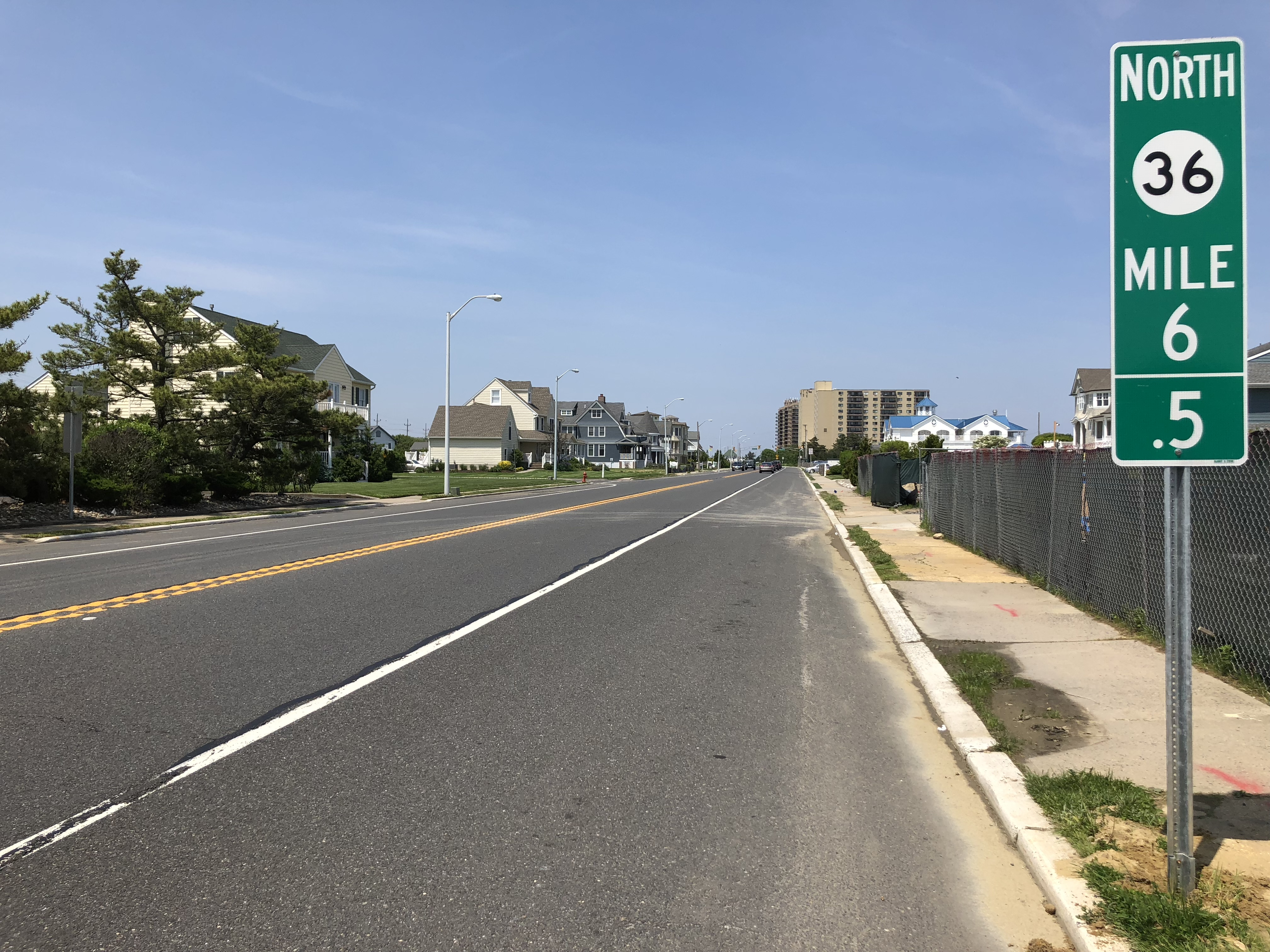 View north along New Jersey State Route 36 (Ocean Avenue) just south of Vista Court in Monmouth Beach, Monmouth County, New Jersey